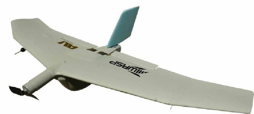 Wasp IIII small unmanned aircraft system